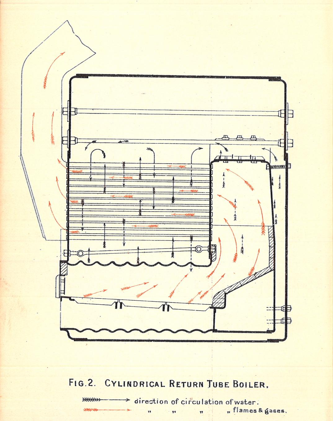 Scotch marine boiler Scotch marine boiler. Side-section Scans from 'Stokers' Manual 1912', the Royal Navy's standard training handbook, "for engine-room ratings not entitled to the steam manuals and seamen under training in mechanical and stokehold work". See other images from this source in Scans from 'Stokers' Manual 1912'